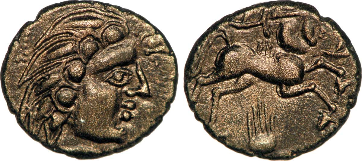 Statère d’électrum frappé par les Pictons. Date : Ier siècle avant J.-C.